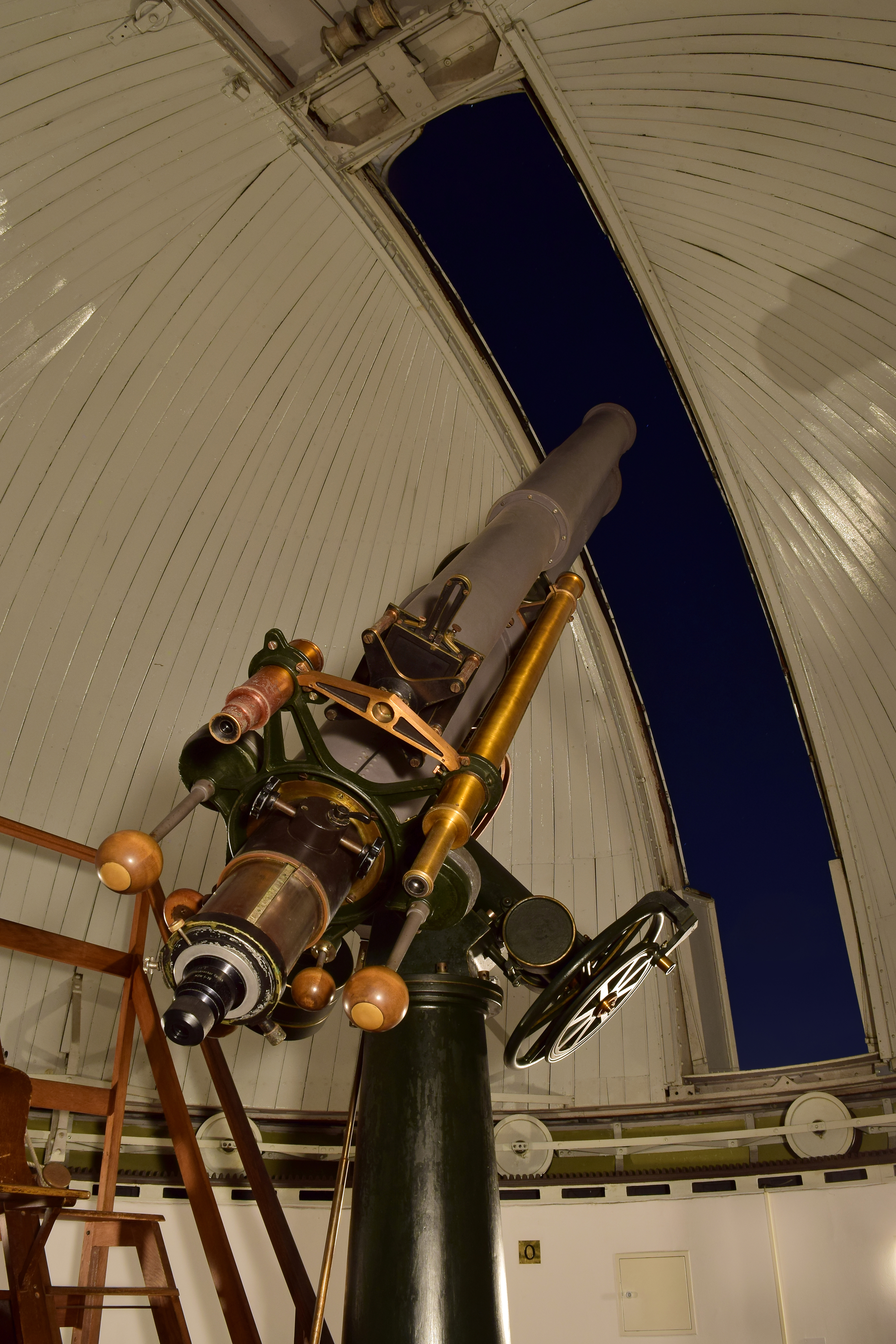 Refracting telescope at Kuffner Observatory. Built 1884-1886 by Repsold & Söhne (Hamburg) in the keplerian Design. Optic by Steinheil & Söhne (Munich). An Astrograph was added in 1890.